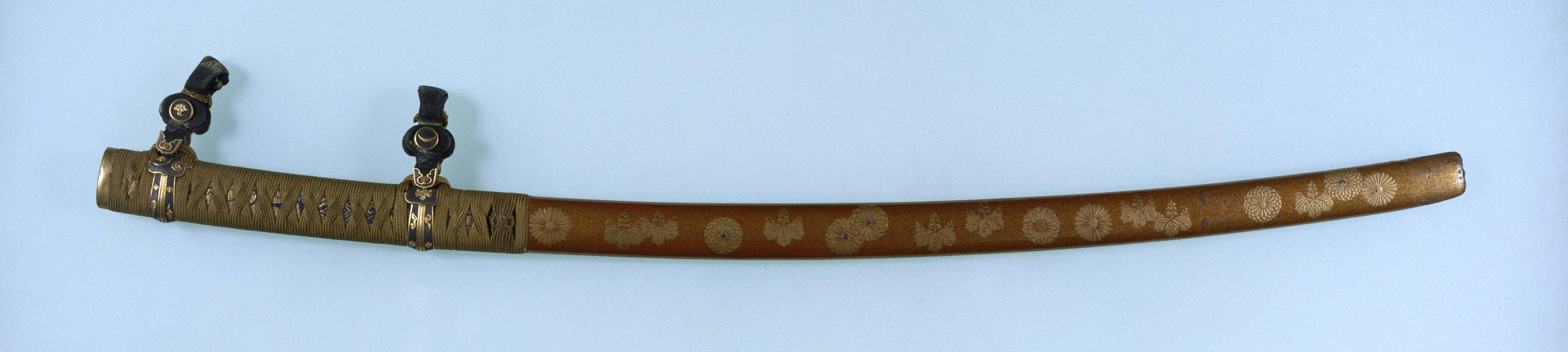 Long sword signed Sanjou (celebrated Mikazuki Munechika)